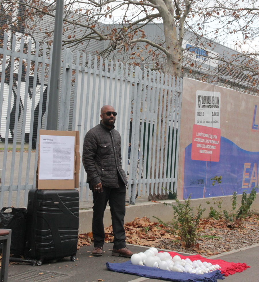 Ayzay Ukwuoma performing idea sale in front of Biennale de Lyon 2019